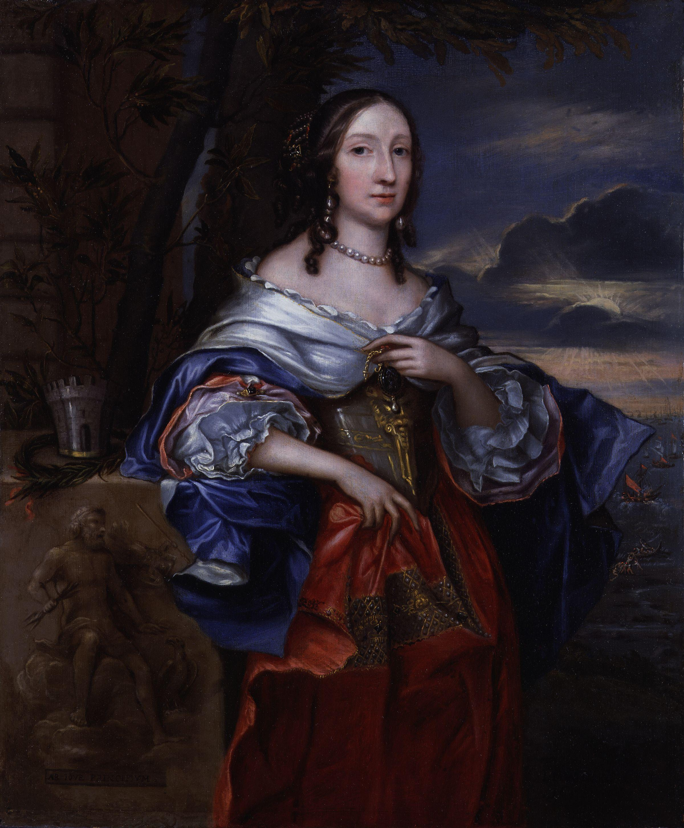 Elizabeth Claypole (née Cromwell), by John Michael Wright (died 1694). All images in this batch have been confirmed as author died before 1939 according to the official death date listed by the NPG.